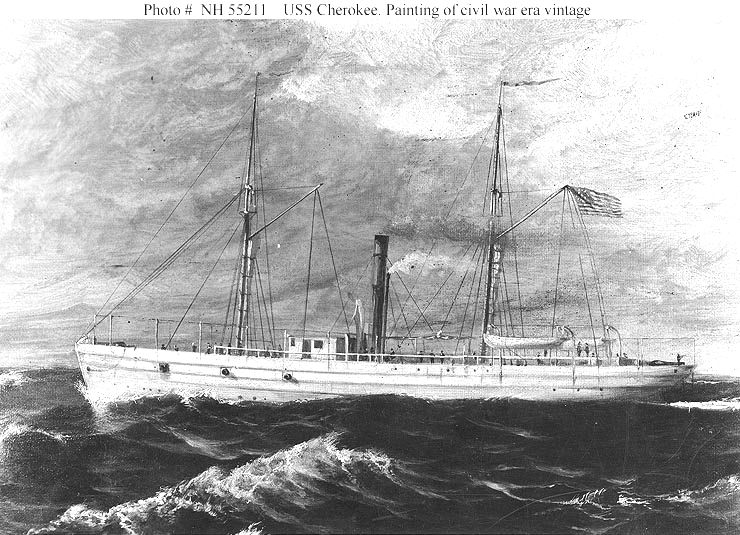 USS Cherokee (1864) Photo #: NH 55211 USS Cherokee (1864-1865) Civil War vintage painting. Courtesy of the Hyde Windlass Company, Bath, Maine, April 1936. U.S. Naval Historical Center Photograph. Online Image: 123KB; 740 x 535 pixels